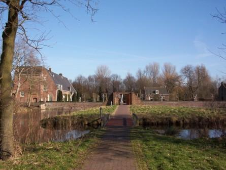 Heemstede park 'Het Oude Slot'. The park is situated at the site of the former castle 'Heerlijkheid Heemstede', or 'Huis te Heemstede', at a strategic position on mouth of the Spaarne river on the Haarlem lake (since 1853 pumped dry and called the Haarlemmermeer polder). Photo from the west side of the moat around the castle site.